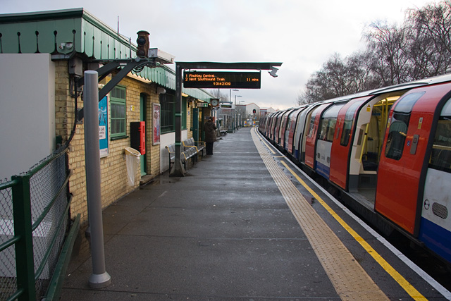 Mill Hill East Station A late morning train waits in the station. The Northern Line was in disarray due to a signal failure at Camden Town during the morning rush hour. The Mill Hill East service was being operated as a shuttle from Finchley Central. Note the rather rusty repeater signal next to the cctv camera, top left.